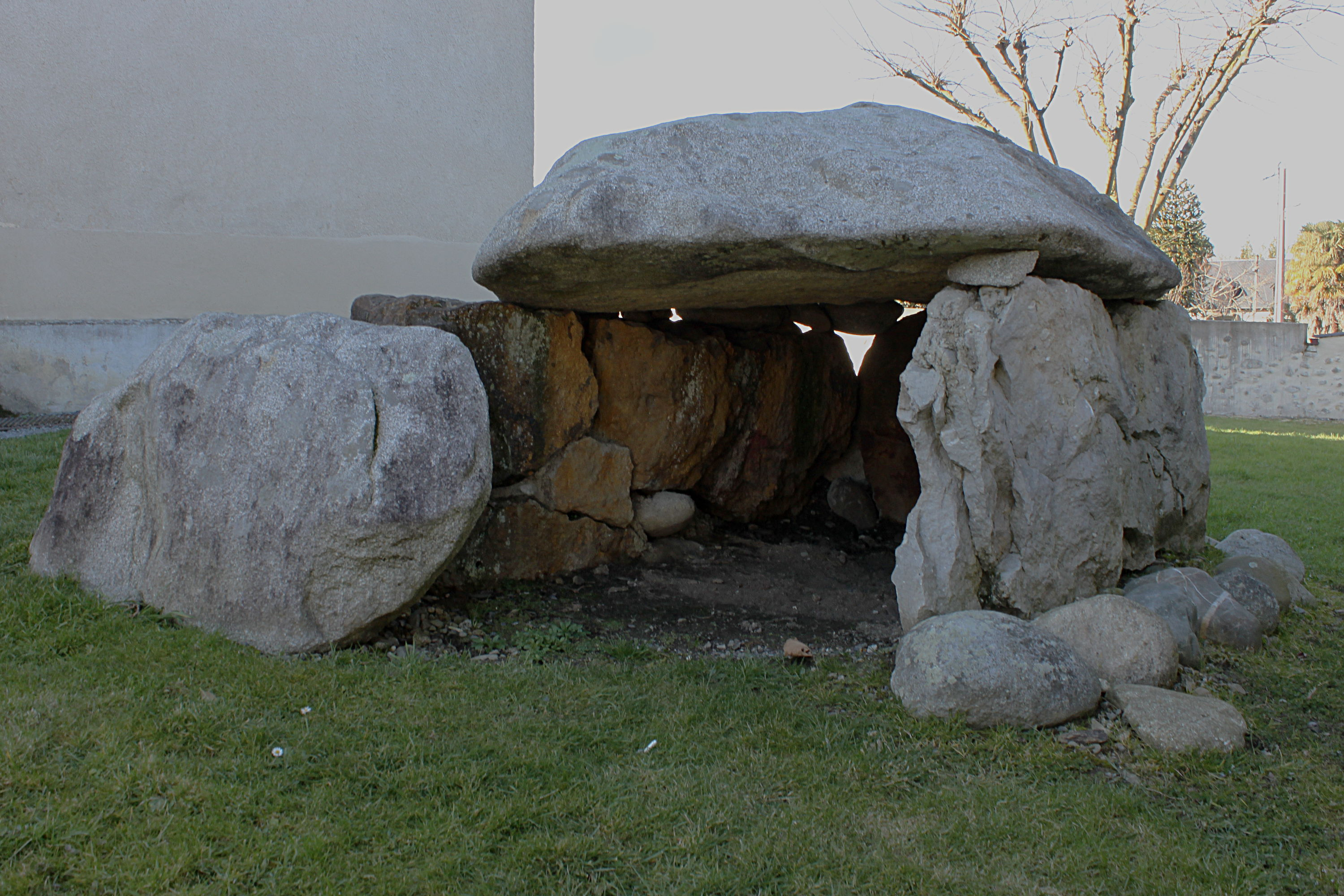 The dolmen of Barzun dates from 3500 to 4000 years ago, around the end of the Neolithic and start of the Bronze Age. It was discovered in 1968 in a field in Barzun. The original structure was about 20 x 10 metres This oval burial mound had a height of 1,5 m at its highest point. As it was excavated, two tangent circles made of boulders appeared. In the second circle was discovered the dolmen itself. The room was to have received one or more burials accompanied by furniture and various valued items such as vases, polished axes, and flints. Unfortunately, the interior of the dolmen had certainly been violated at an early date, and archaeologists discovered nothing in it, neither bones nor vases or worked stone. The dolmen was then dismantled in 1968 and moved in 1972 to Arudy (a village about 50 km from Barzun) by Georges Laplace, research fellow at the CNRS. In 1990, Laplace moved from Arudy to Coarraze and gave the dolmen to the Municipality of the commune, which installed it on the Town Hall Square. Barzun, in 1995, tried to have the dolmen brought back to the village, but with no success. In 2010, a understanding was reached between Jean Saint-Josse (the Mayor of Coarraze) and , Maurice Minvielle (Mayor of Barzun). Coarraze Council then authorised the return of the dolmen to its barzunaise origins. It was described in several stories as "the travelling dolmen." The transfer from Coarraze took place in January 2011, and the installation on an old cemetery by the church of Barzun took place on January 13, 2012.